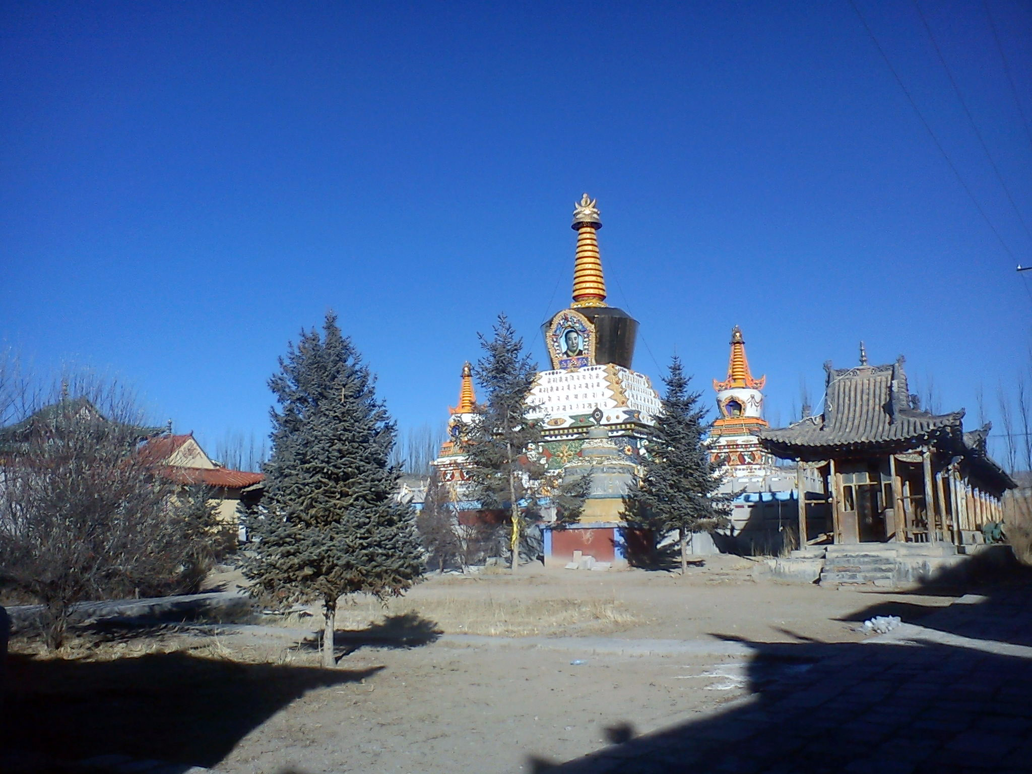 complex of chorten built for 10th Panchenlama, Chabcha